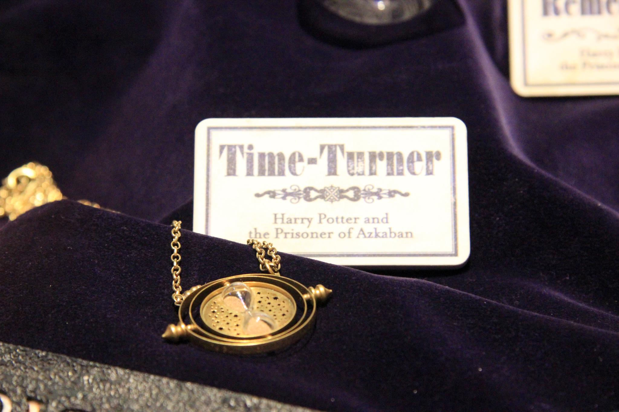 Warner Bros. Studio Tour London: The Making of Harry Potter.